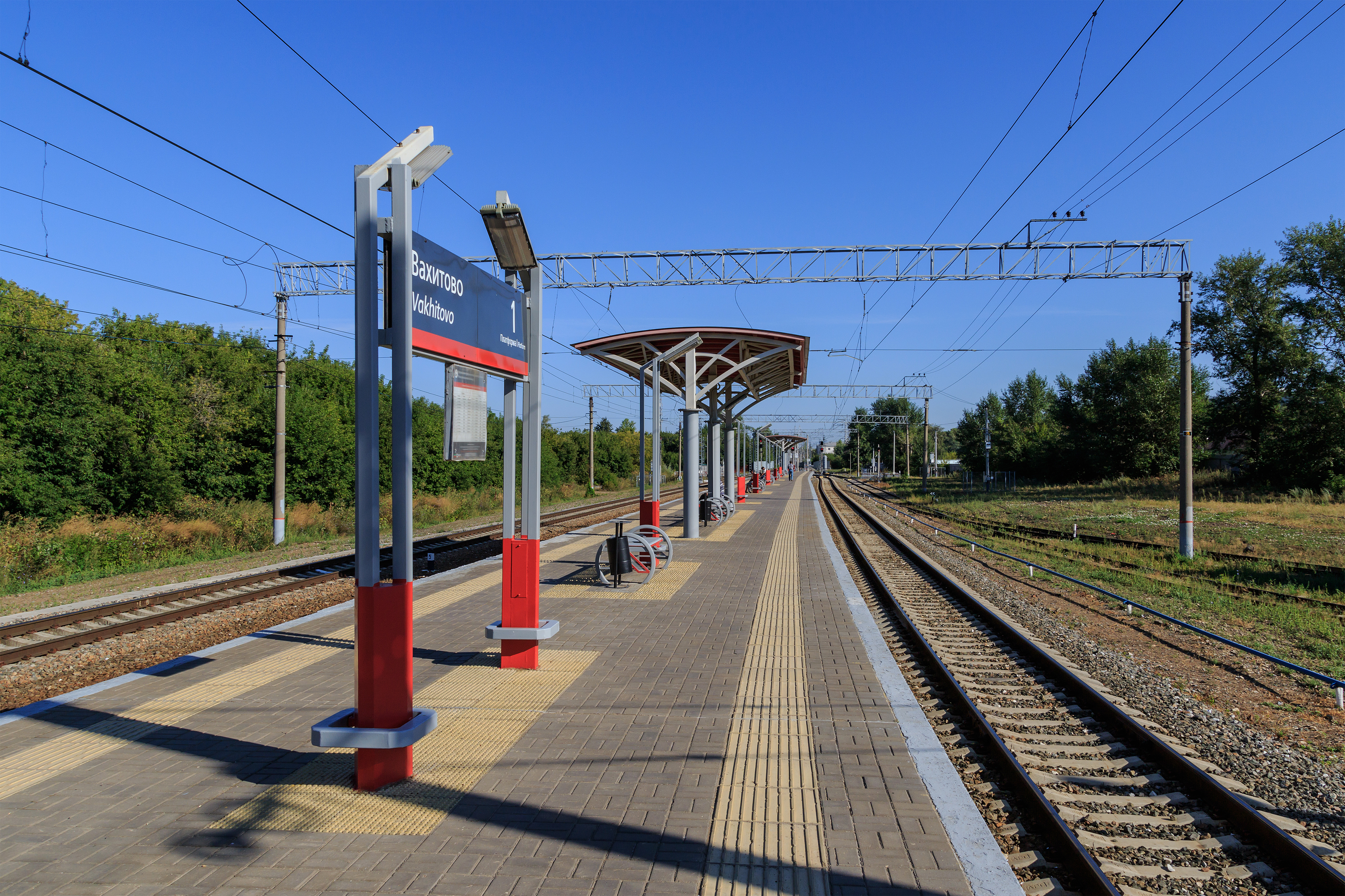 Vakhitovo railway station in Kazan, Russia